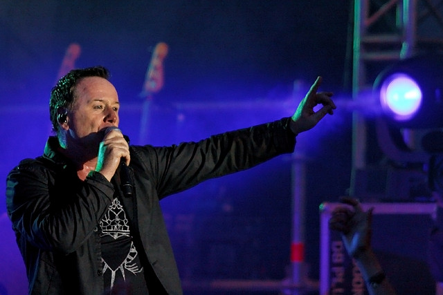 Simple Minds, Live at Buesum